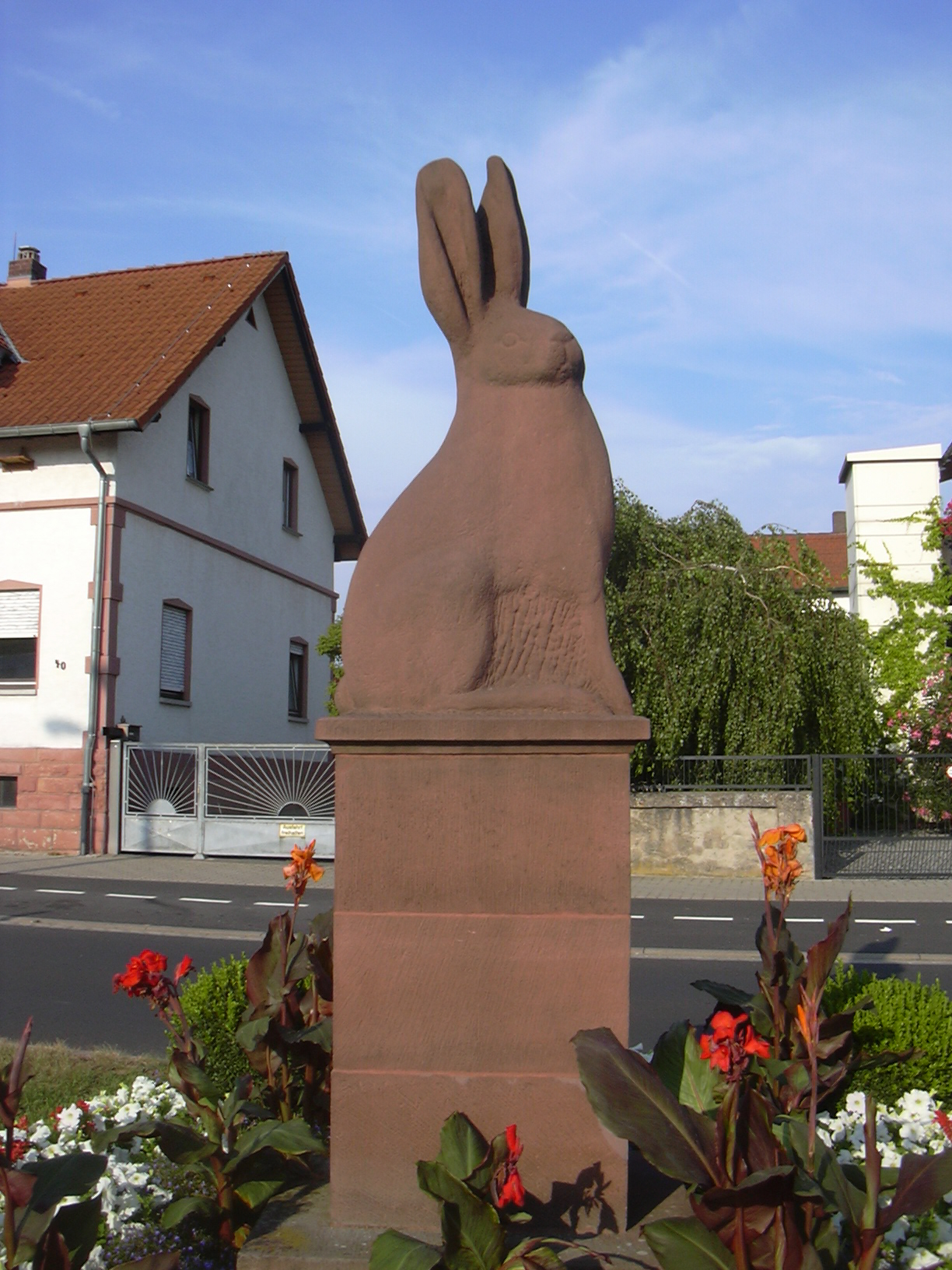 "Kahler Sandhas" ("sandy rabbit"); local monument in memory of former sand mines at Kahl, near Aschaffenburg, Bavaria/Germany